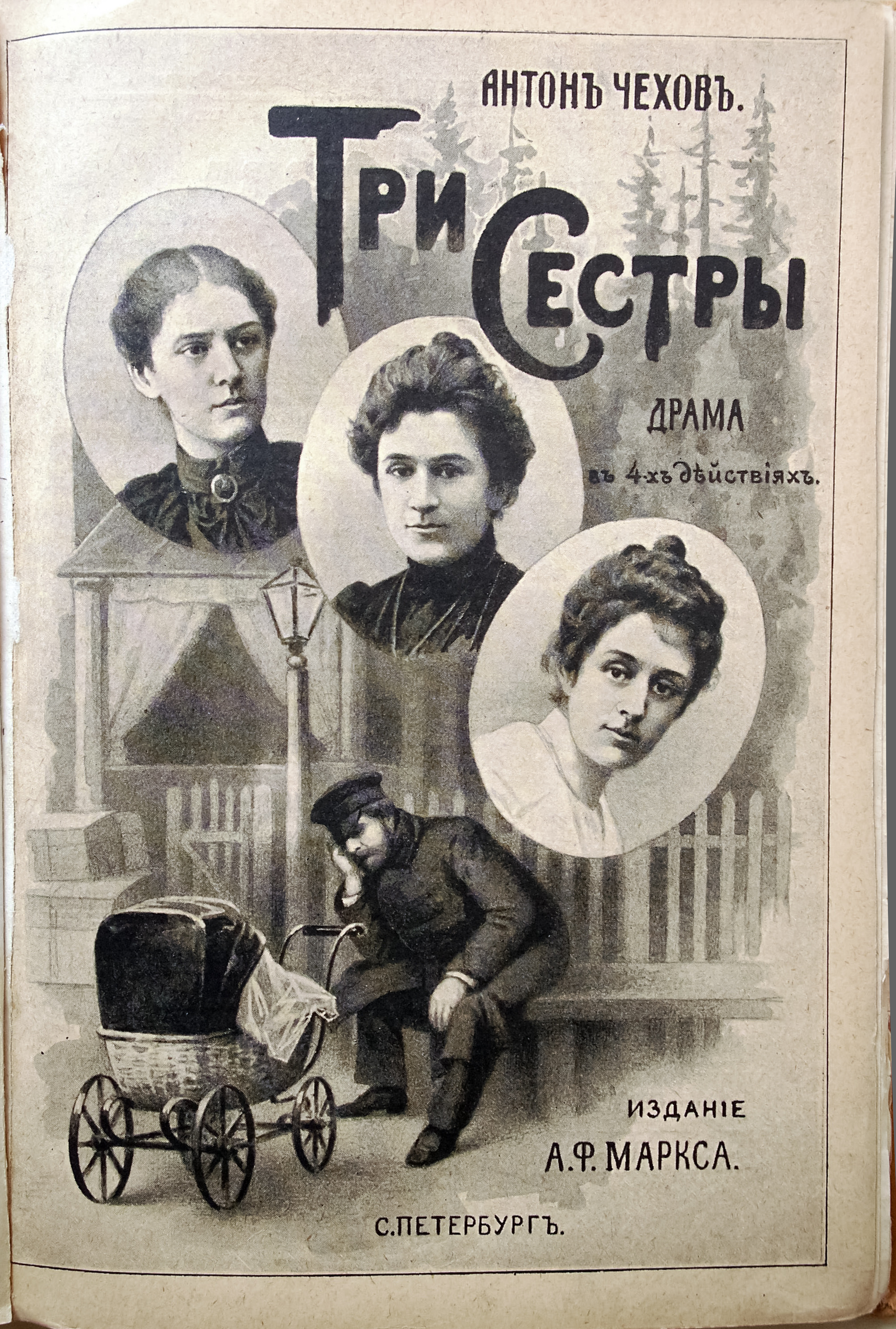 The front cover of the first edition of Three Sisters published 1901 by Adolf Marks, St Petersburg